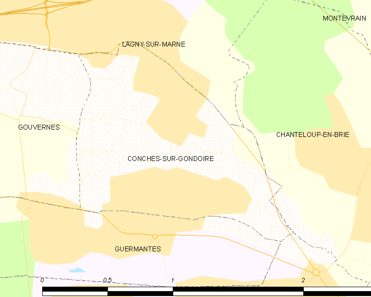 Map of French municipality Conches-sur-Gondoire